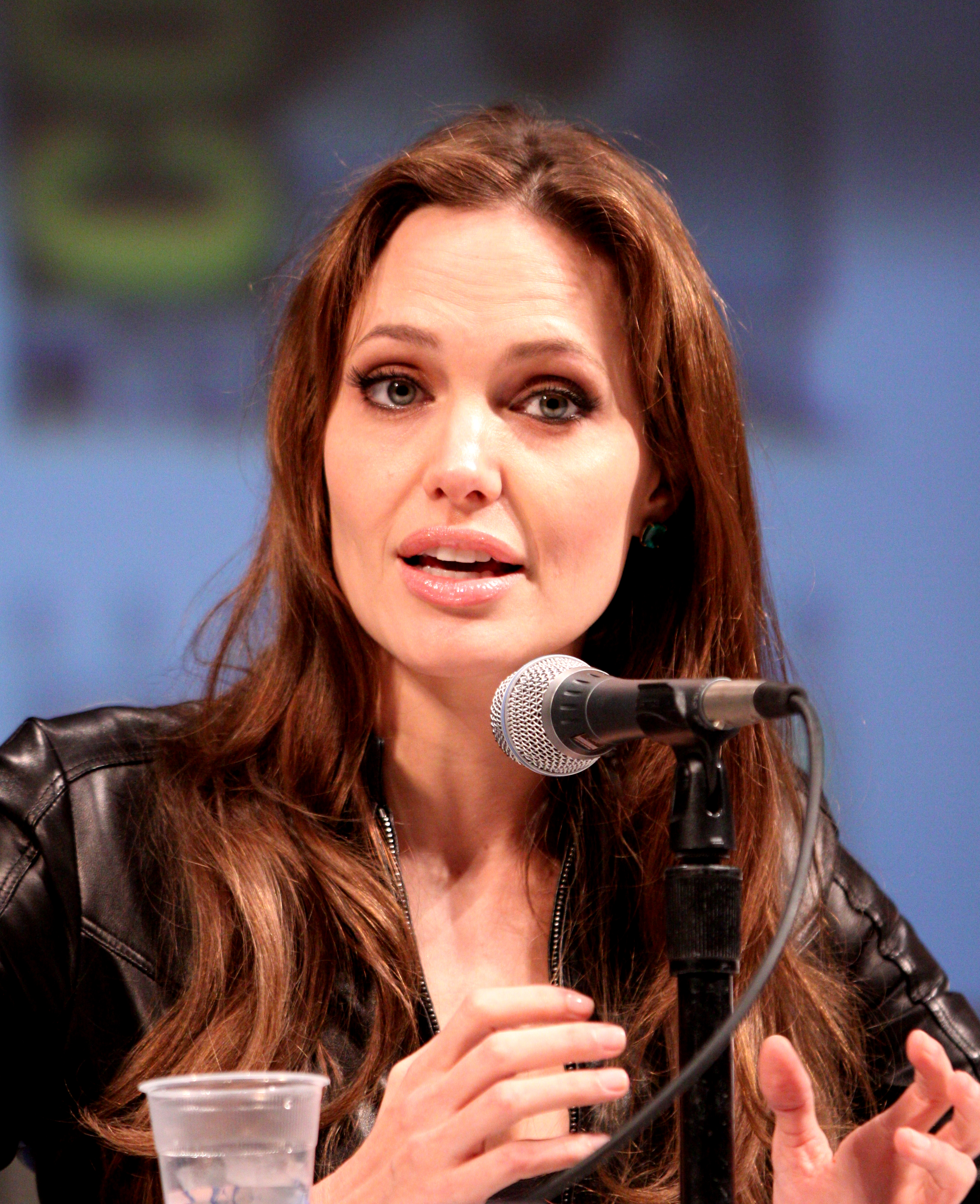 Angelina Jolie at the 2010 Comic Con in San Diego